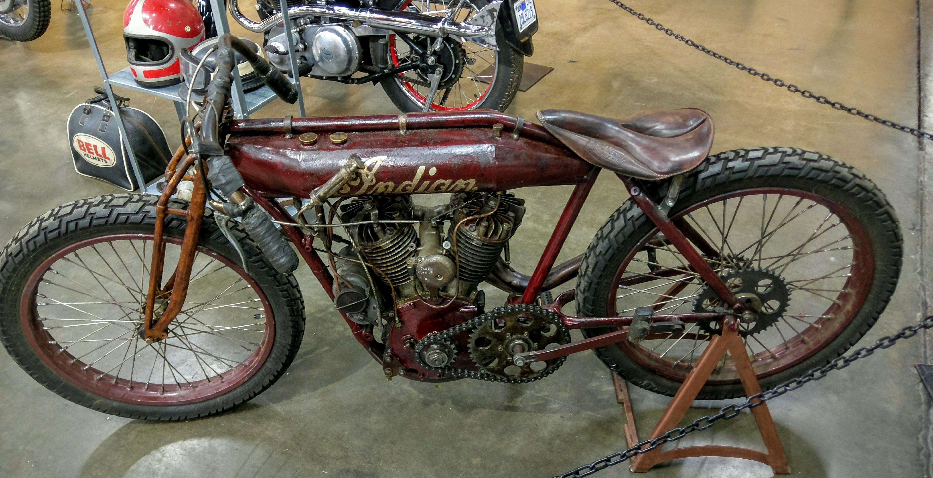 On display at the California Automobile Museum. Photo by Jim Heaphy.